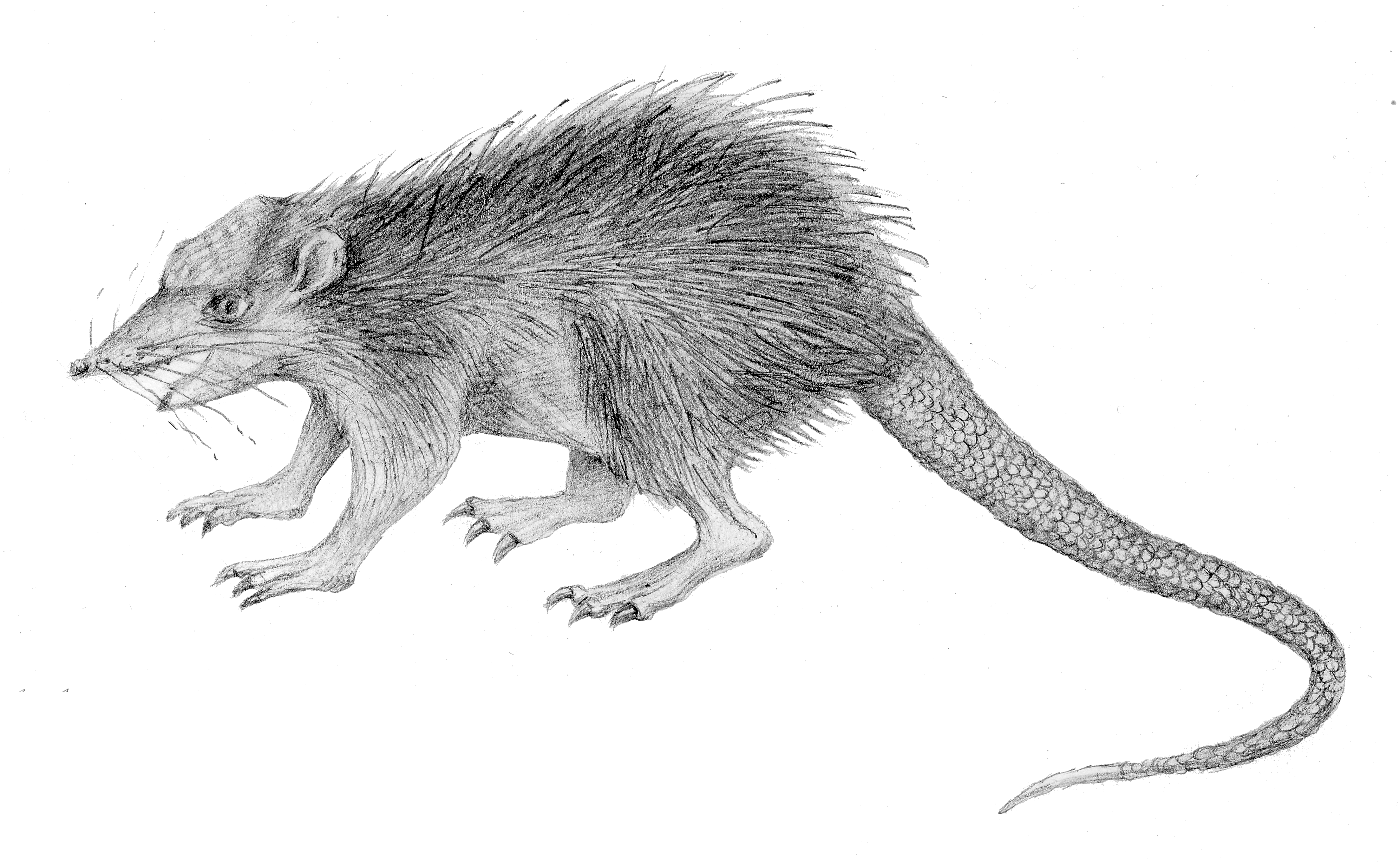 Reconstruction of Pholidocercus, drawn after: Gerhard Storch and Gotthard Richter: Zur Paläobiologie der Messeler Igel. Natur und Museum 124 (3), 1994, pp. 81–90 (p. 82); and after: Kenneth D. Rose: The beginning of the age of mammals. Johns Hopkins University Press, Baltimore, 2006, pp. 1–431 (p. 147; fig. 9.8)